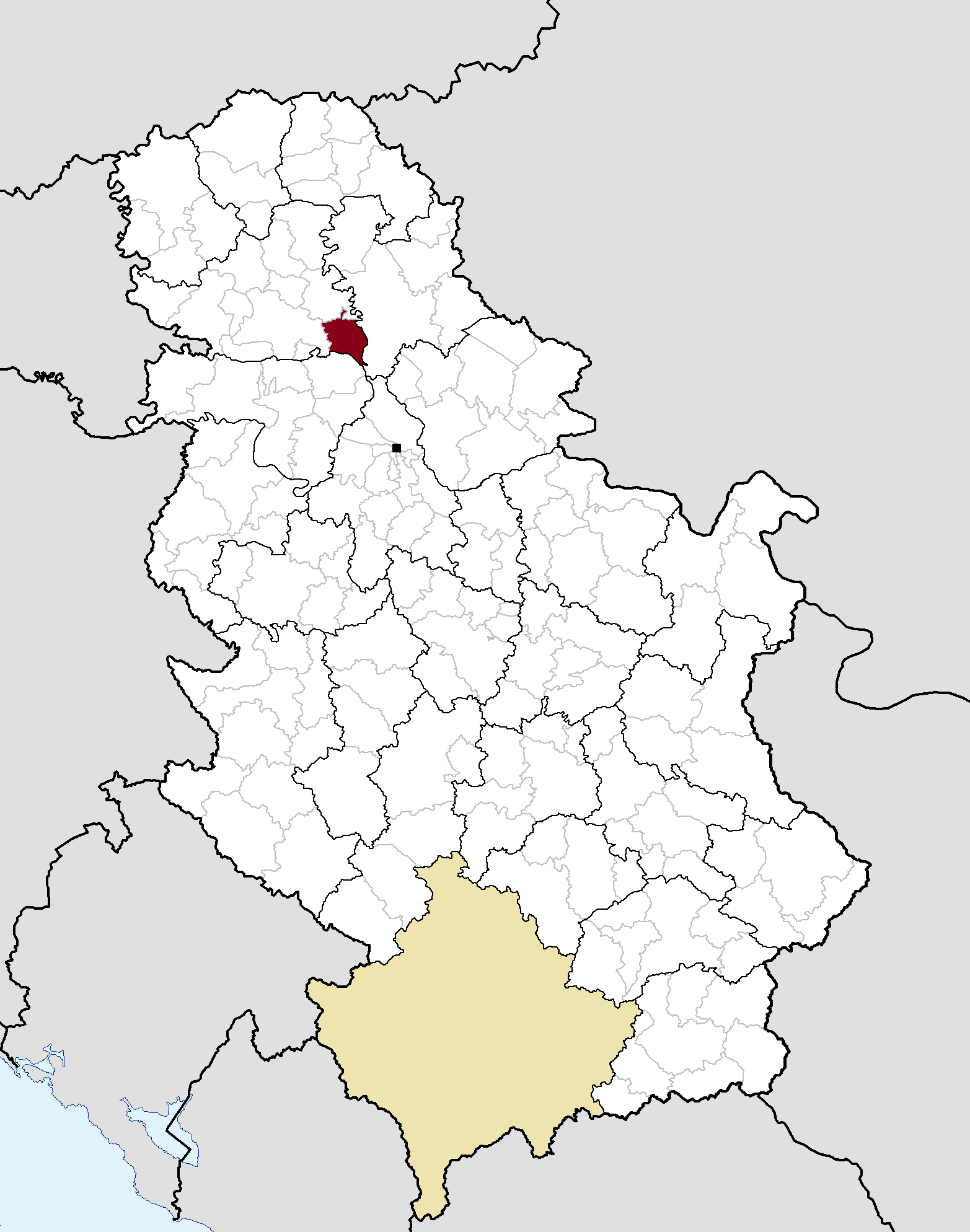 Municipal location in Serbia